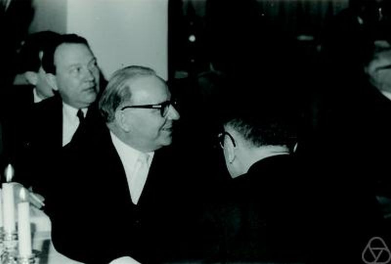 Claus Müller (left), Friedrich Sommer (middle), Münster 1967 (Emeritation Heinrich Behnke)